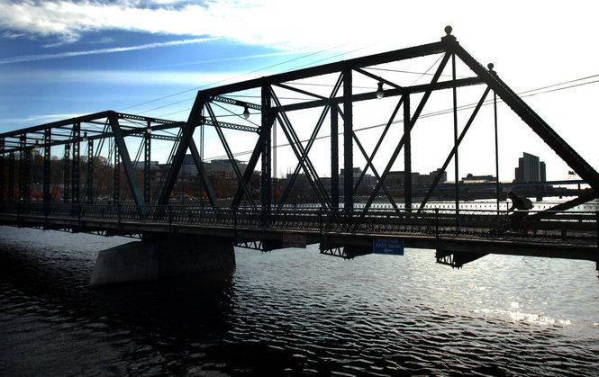 Sixth street bridge in Grand Rapids Michigan built by the Massillon Bridge Company. This is the oldest steel truss bridge known to exist in the state of Michigan.